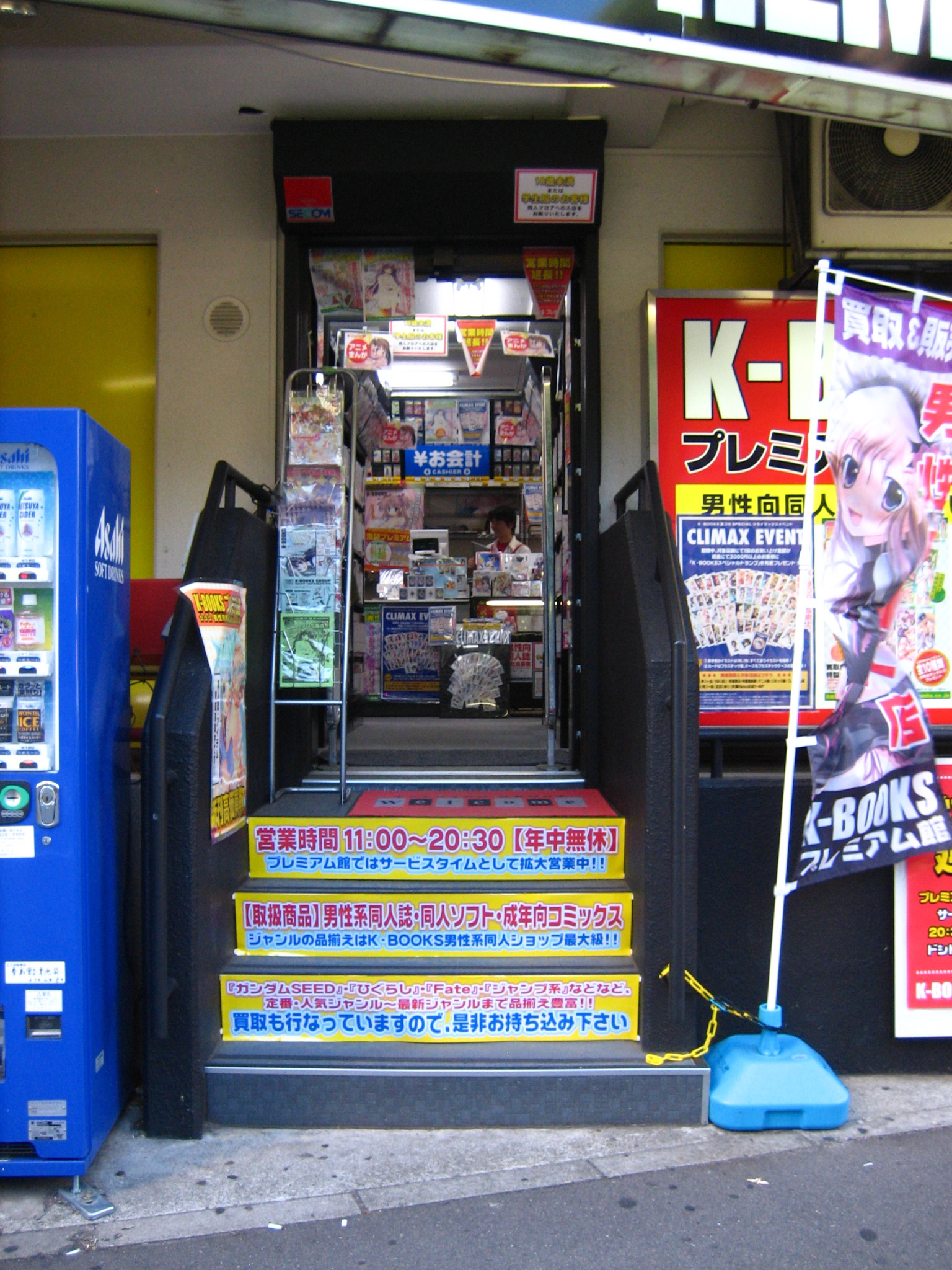 Taken on August 8, 2007 in Tokyo.